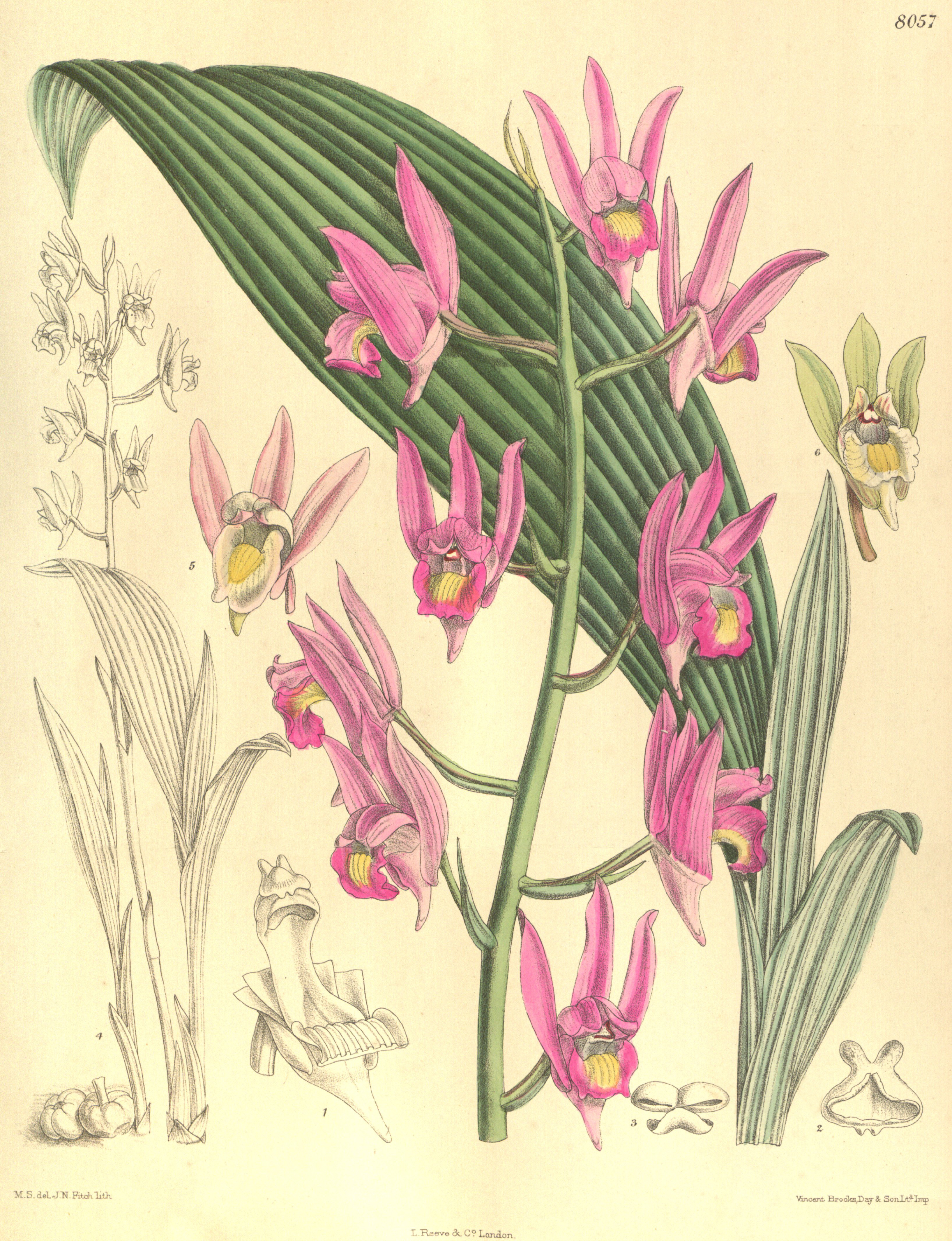 Illustration of Eulophia spectabilis (as syn. Eulophia nuda)